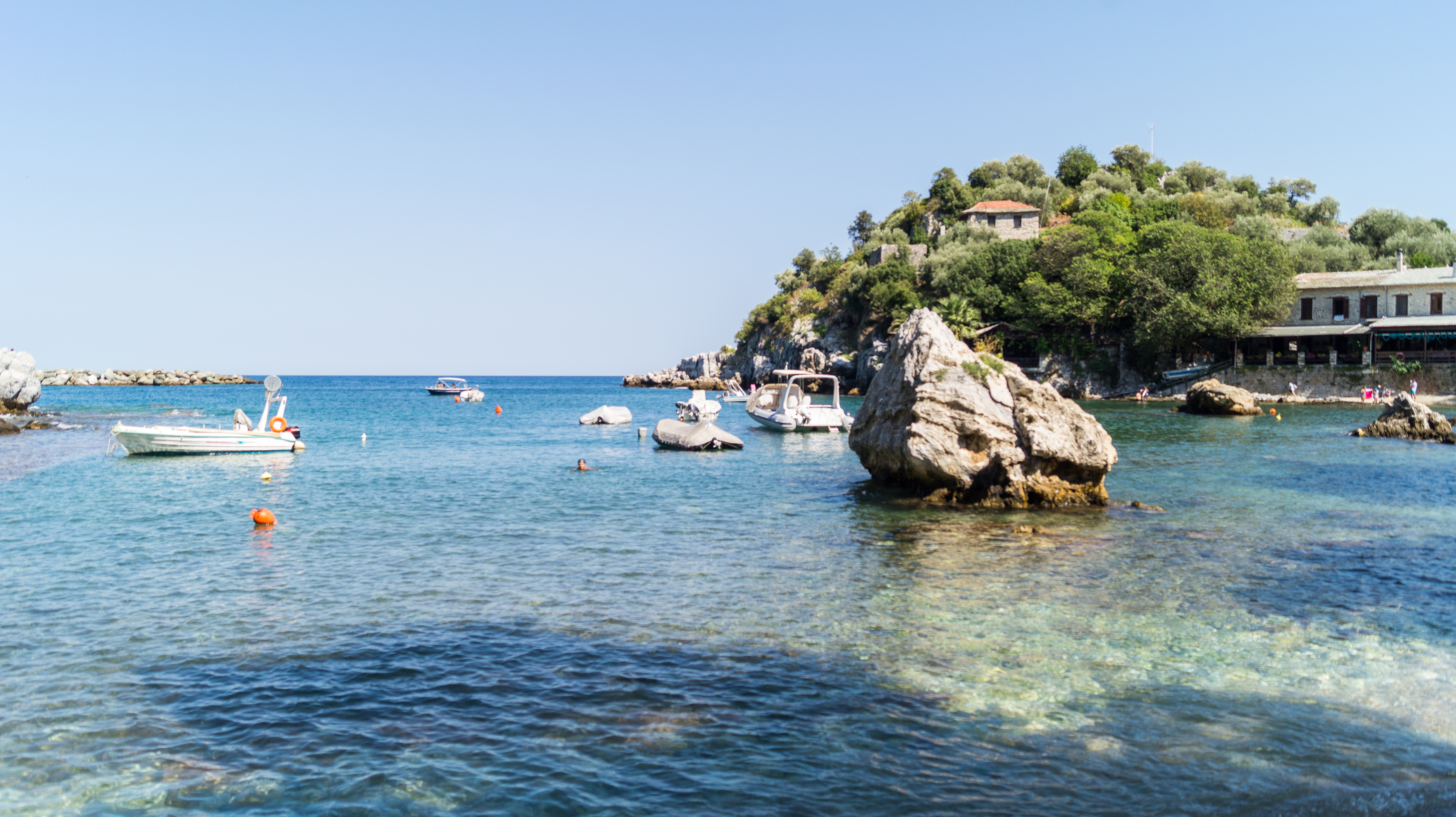 Ntamouchari - beach Mamma Mia! This is a photography of Natura 2000 protected area with ID GR1430001